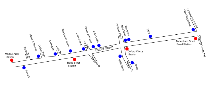 Map showing Oxford Street and major side roads, with London Underground stations and landmark stores marked